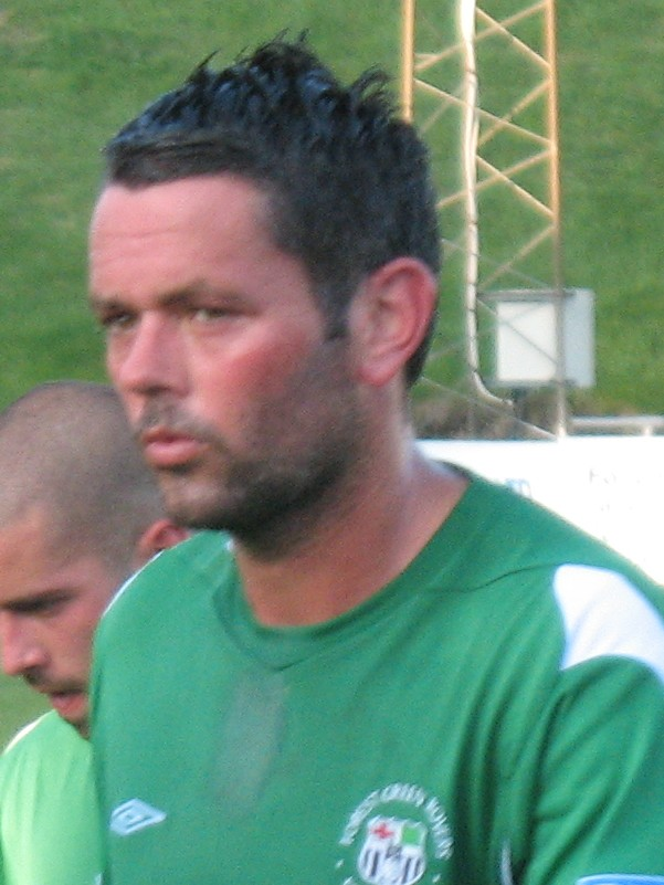 Jerry Gill playing for Forest Green Rovers F.C. away at Lewes F.C. in the Football Conference 2008–09 season